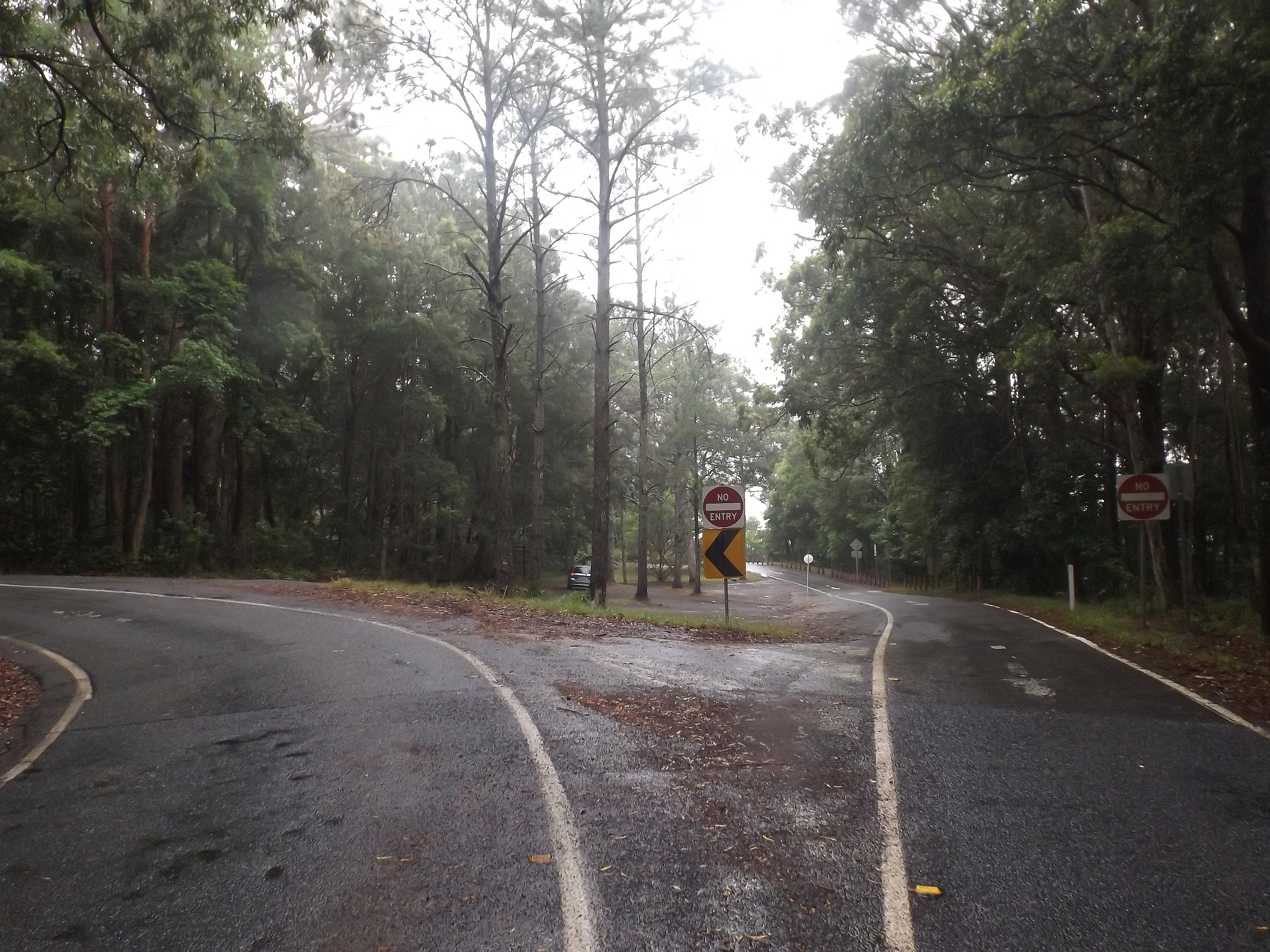 Photo of the southern (upper) end of the divided section of Springbrook Road at Springbrook, City of Gold Coast, Queensland, Australia.